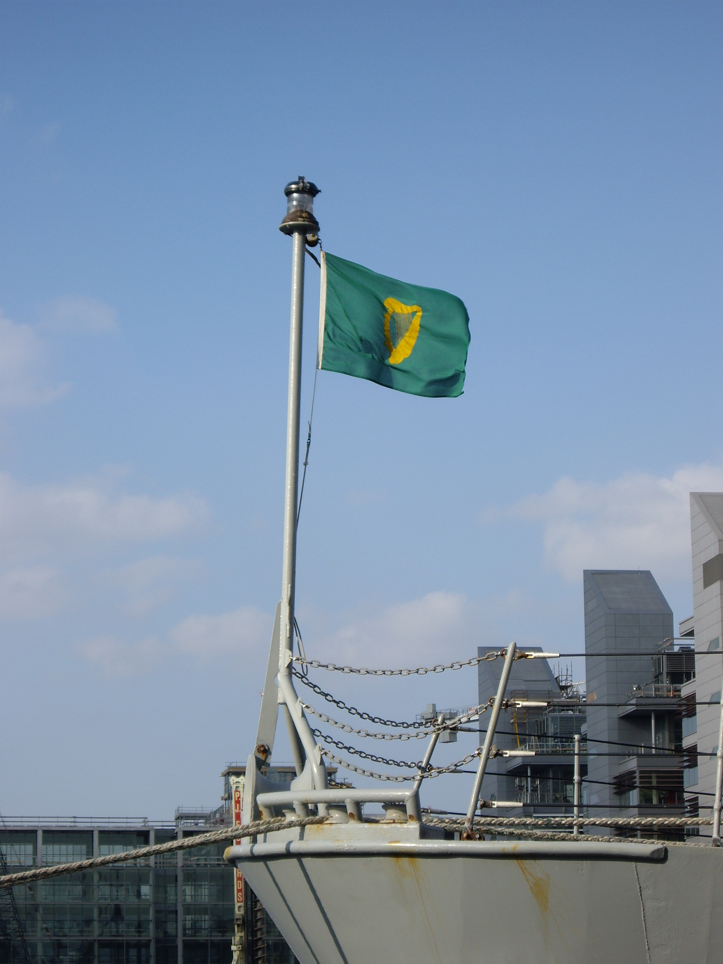 Irish naval jack flying from bow of LE Aoife, SJRQ, Dublin